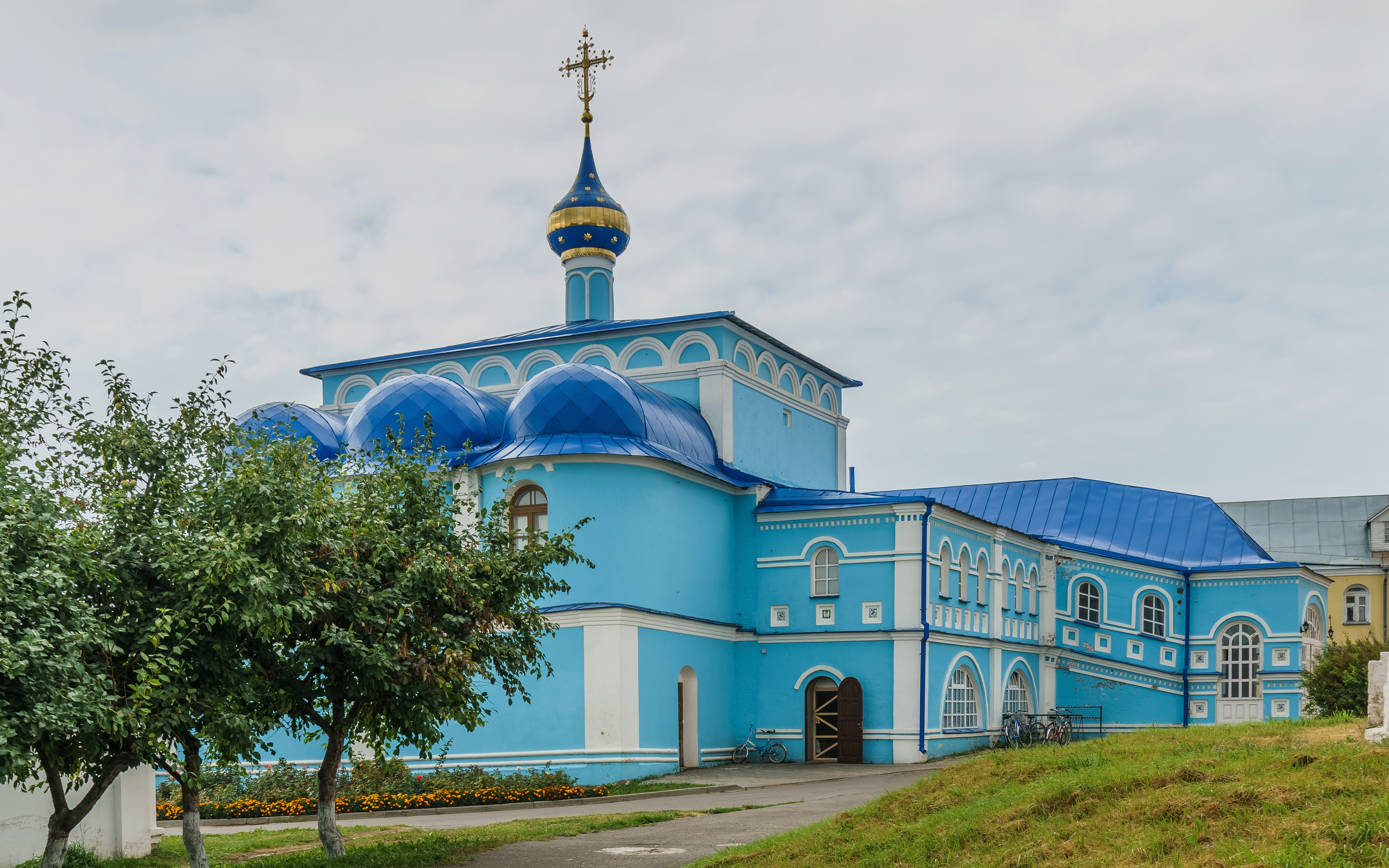 Nikolo-Shartomsky Monastery in Vvedenye, Ivanovo Oblast, Russia: Church of Our Lady of Kazan